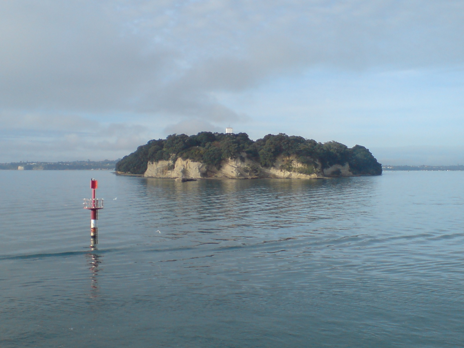 Musick Point in Howick, Auckland, New Zealand. Seen from the north, from the car ferry to Waiheke Island.